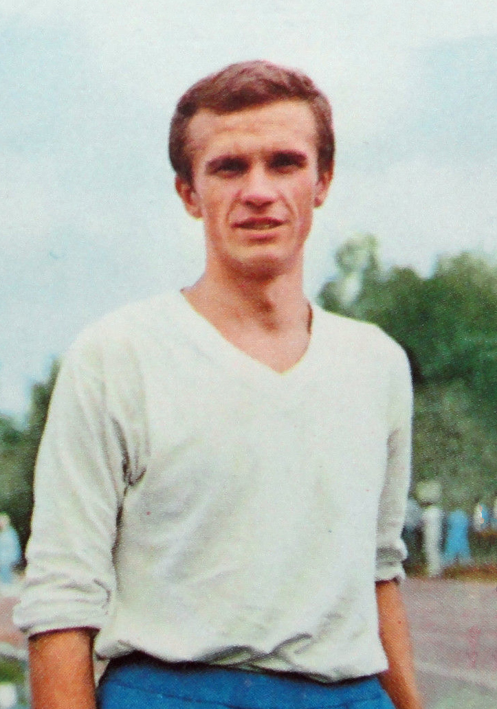 CAMPIONI DELLO SPORT 1969/70-n.40-HAASE (GER)-ATLETICA LEGGERA